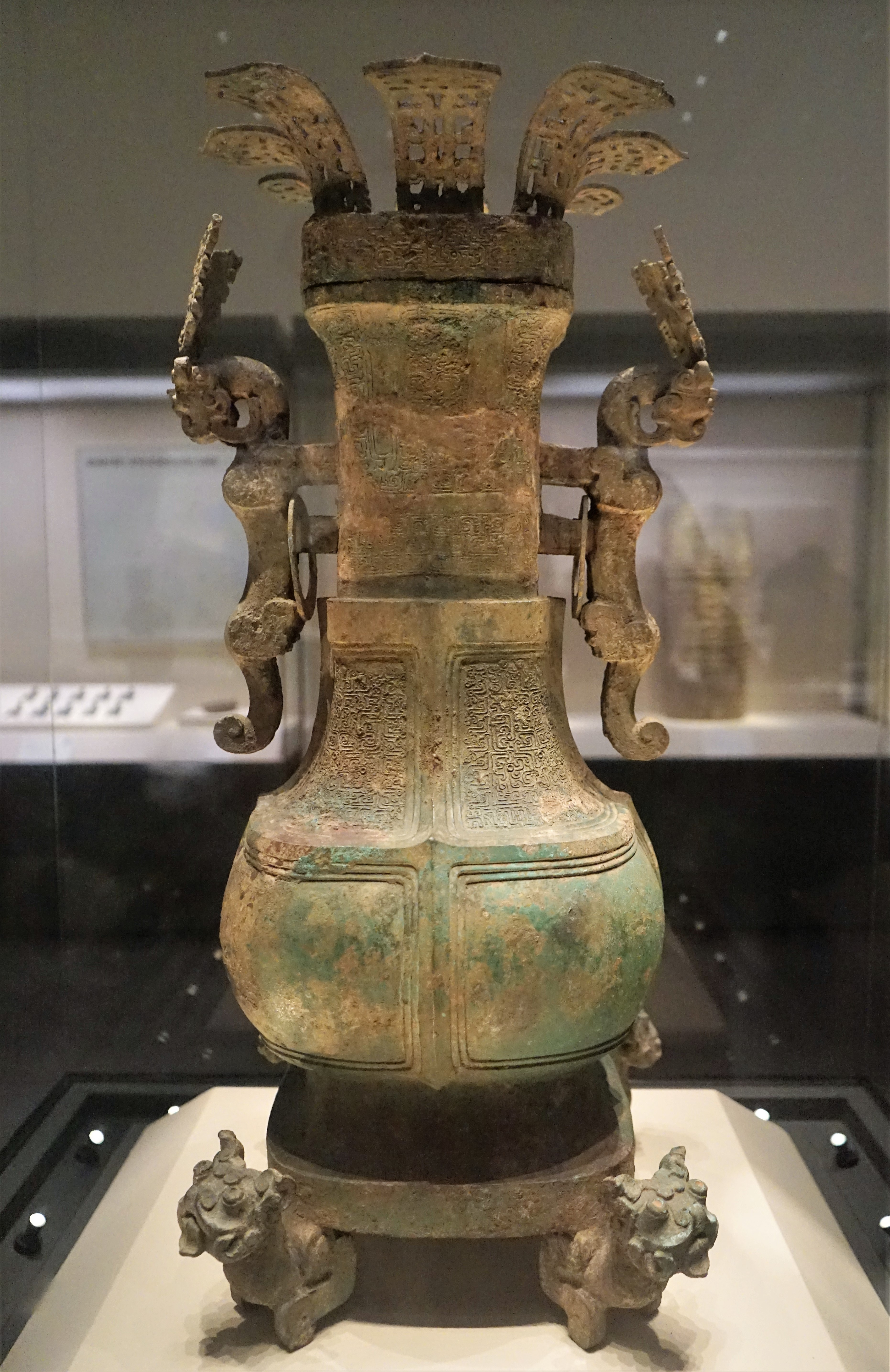 "Cai Hou Shen" Bronze Fanghu. Spring and Autumn period, Cai state. Unearthed from tomb of Cai Hou at Shou County, Anhui, 1955.